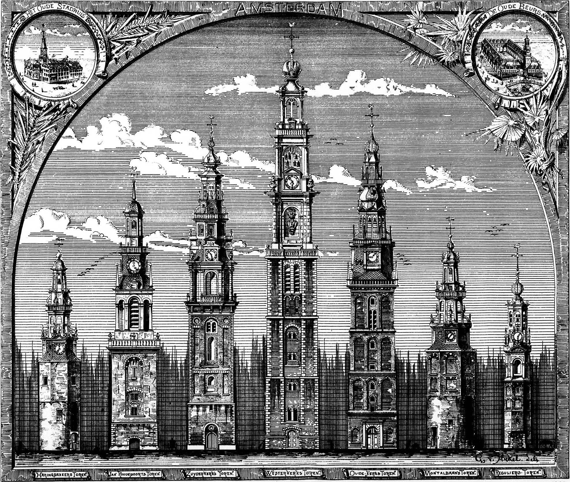 Towers in Amsterdam. From left to right: Haringpakkerstoren, Jan Rodepoortstoren, Zuidertoren, Westertoren, Oudekerkstoren, Montelbaanstoren, Munttoren.